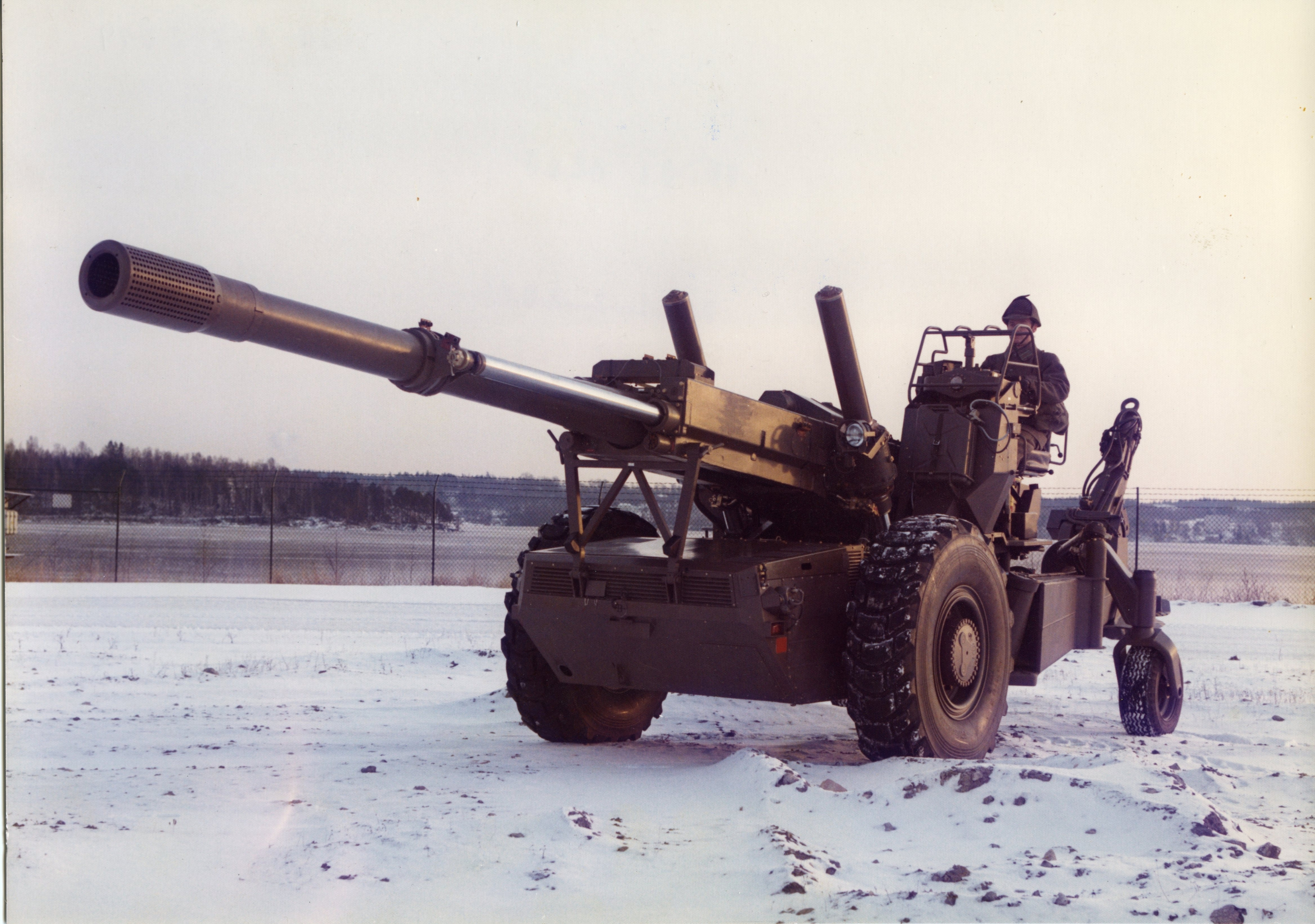 The Swedish Bofors Field Howitzer 77 (Fälthaubits 77) at the Artillery Regiment of Småland (Smålands Artilleriregemente A 6).